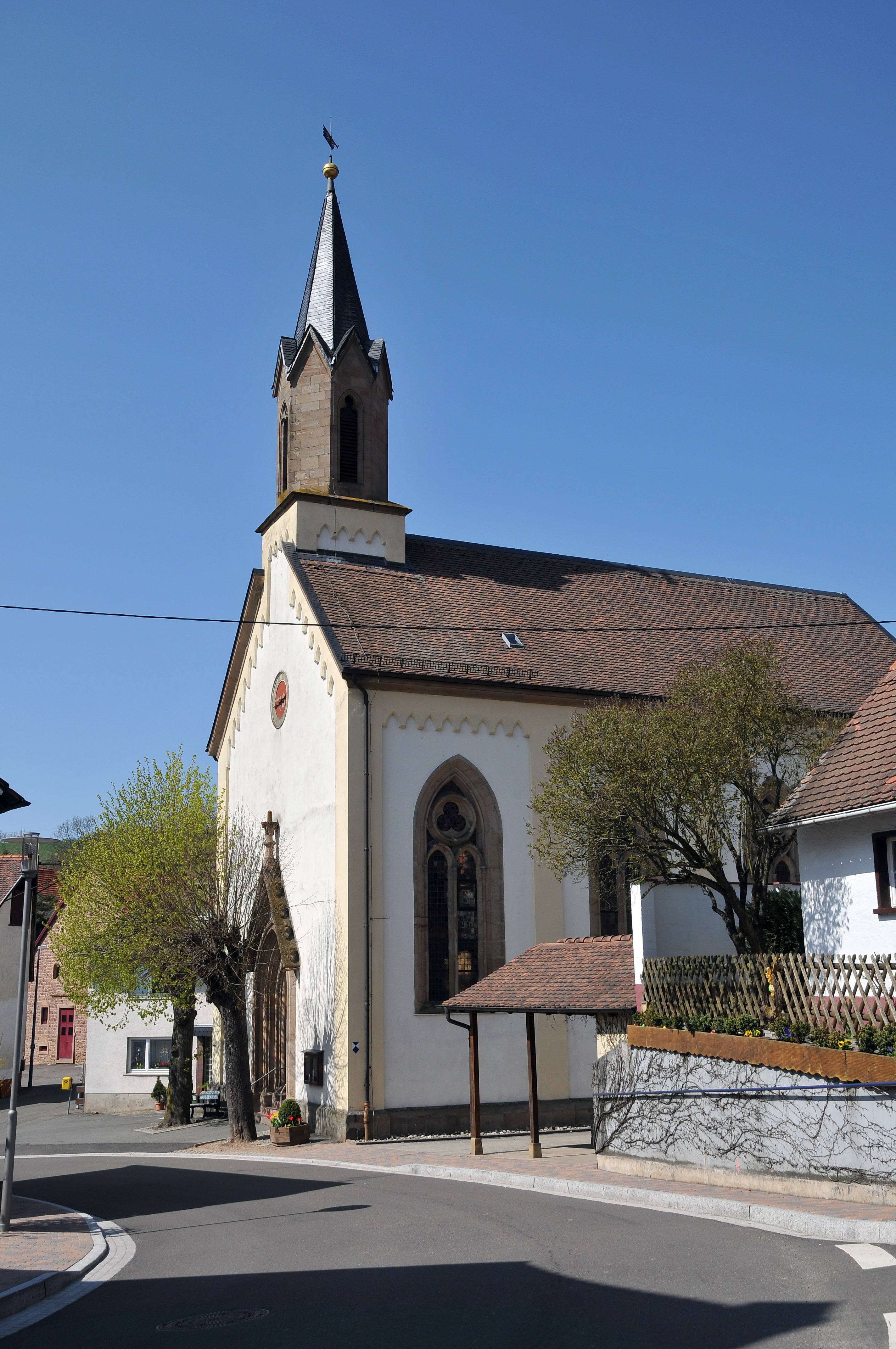 Protestant church of "Marienthal" near Rockenhausen in Rhineland-Palatinate, Germany.